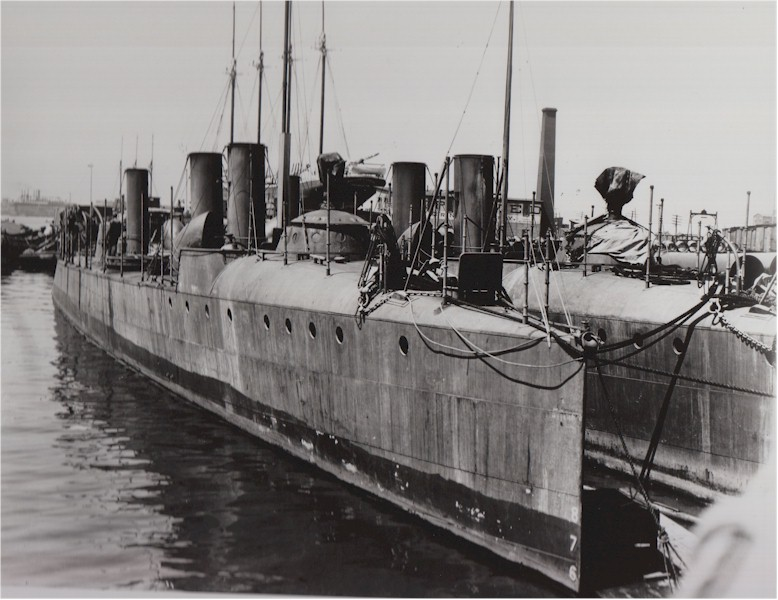 18-N-13924. Circa 1902, location unknown.